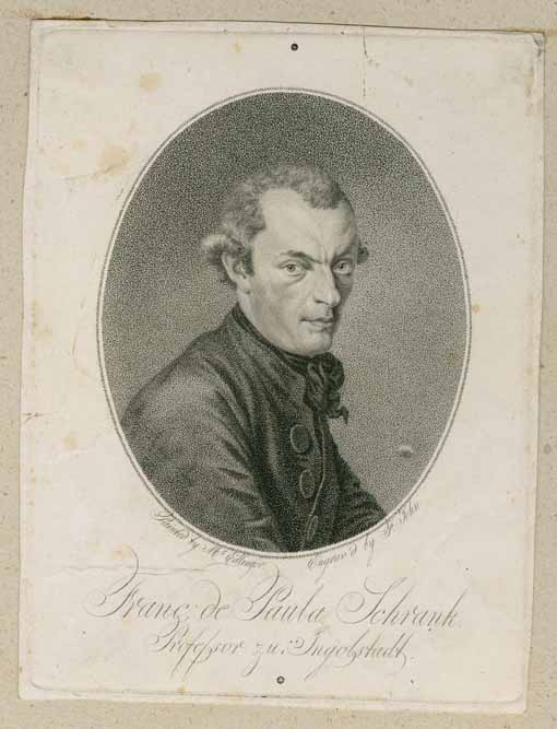 The bavarian jesuit and botanist Franz von Paula Schrank (1747-1835)